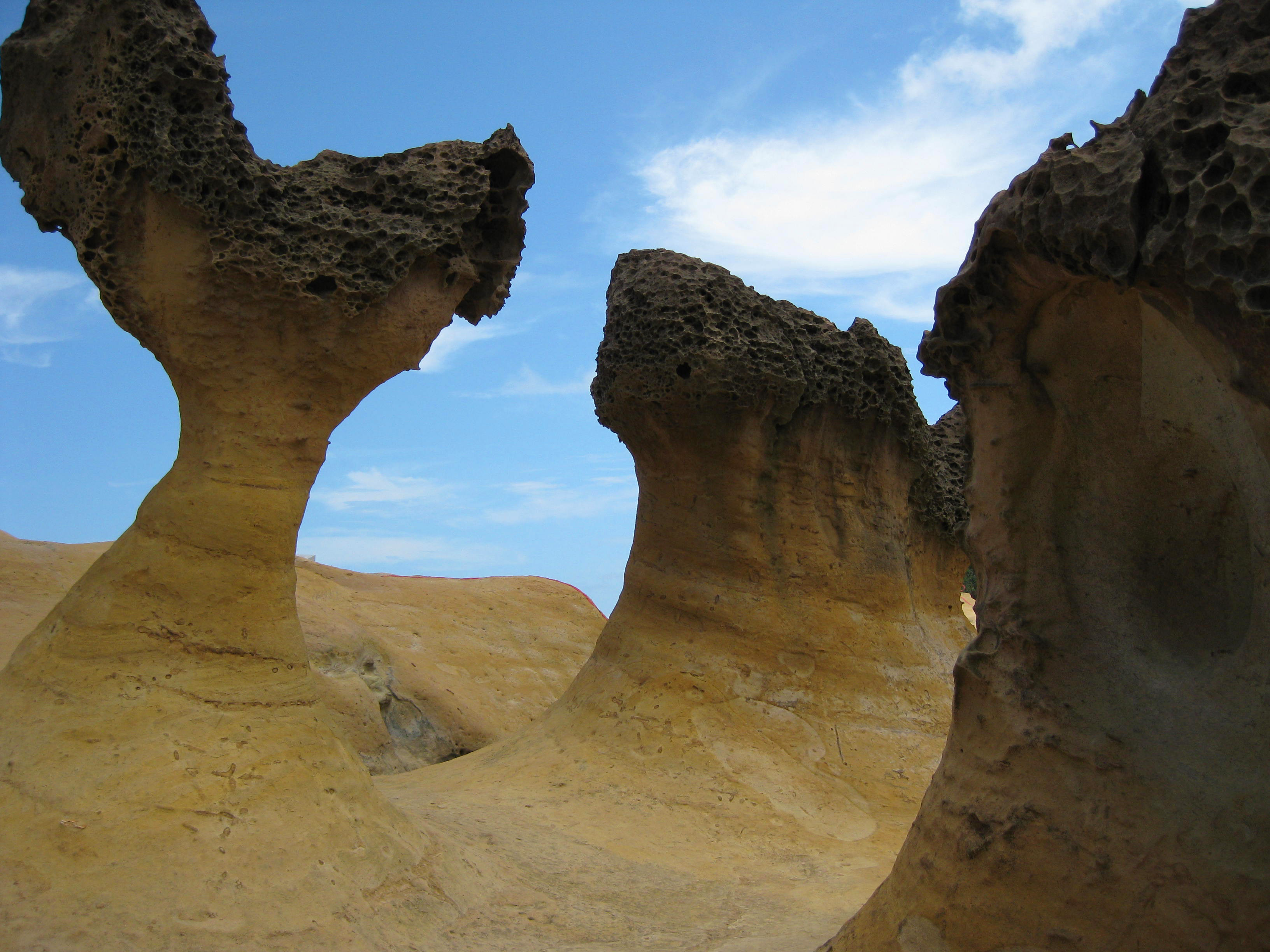 Yehliu Geopark, Taiwan